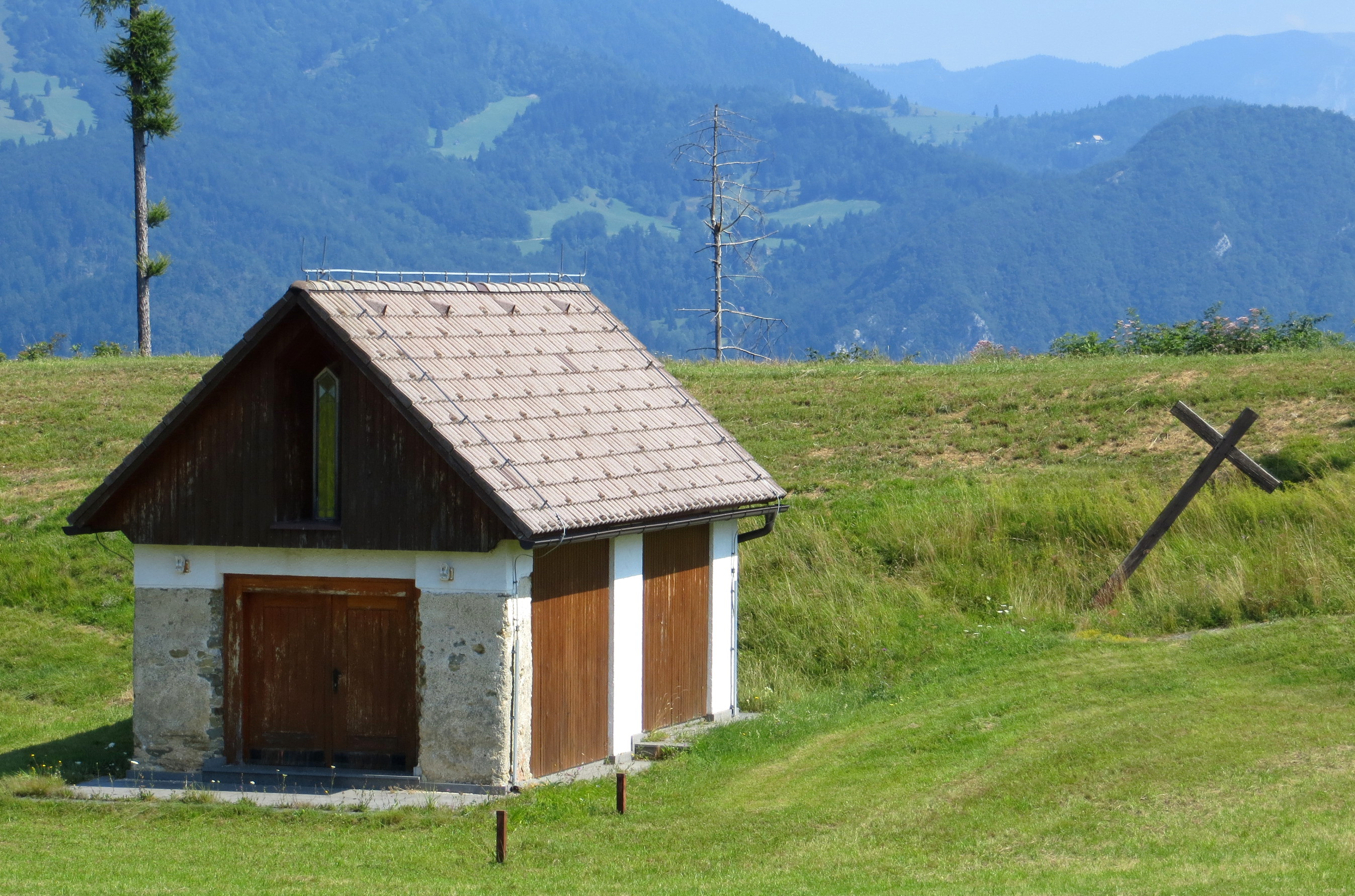 Chapel (a converted hay shed) at the Lajše Mass Grave at Lajše above Cerkno, Municipality of Cerkno, Slovenia